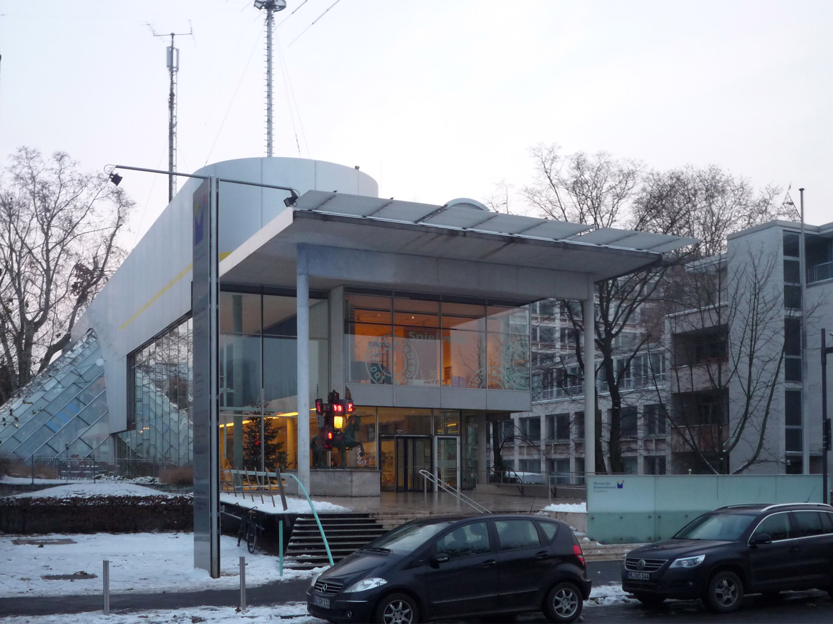 Telecommunications Museum in Frankfurt, Germany.